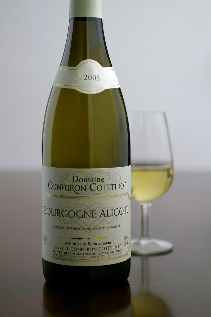 Photo by Titannium22